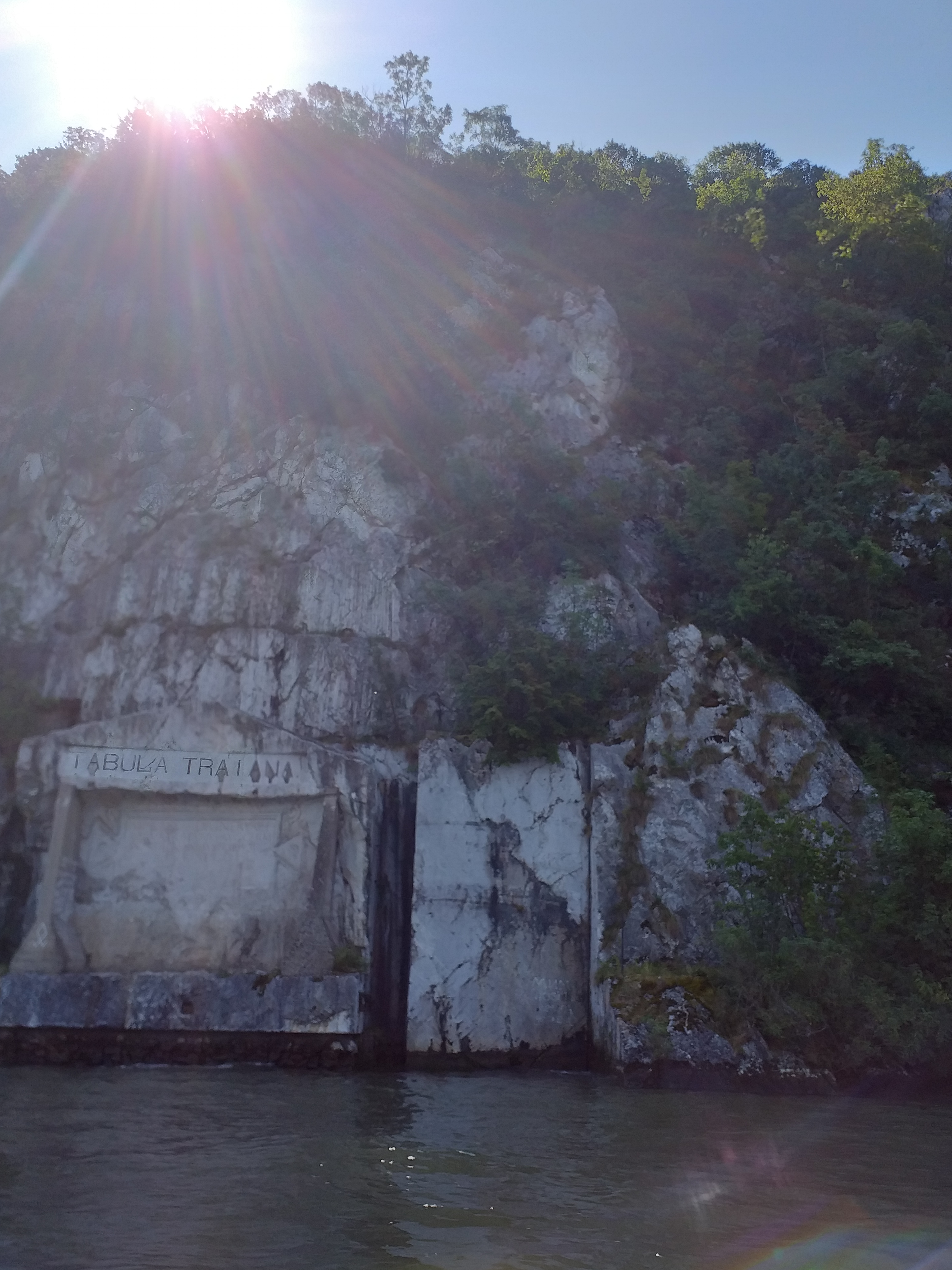 Trajanova Tabla je natpis uklesan u steni pored Dunava, u Đerdapskoj klisuri. Posvećena je rimskom caru Trajanu.